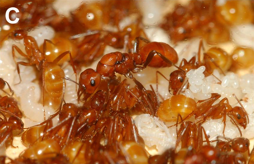 Queen, host workers, and brood of Polyergus lucidus montivagus with host Formica pallidefulva. Photo and description extracted from: King JR, Trager JC. 2007. Natural history of the slave making ant, Polyergus lucidus, sensu lato in northern Florida and its three Formica pallidefulva group hosts. 14pp. Journal of Insect Science 7:42, available online